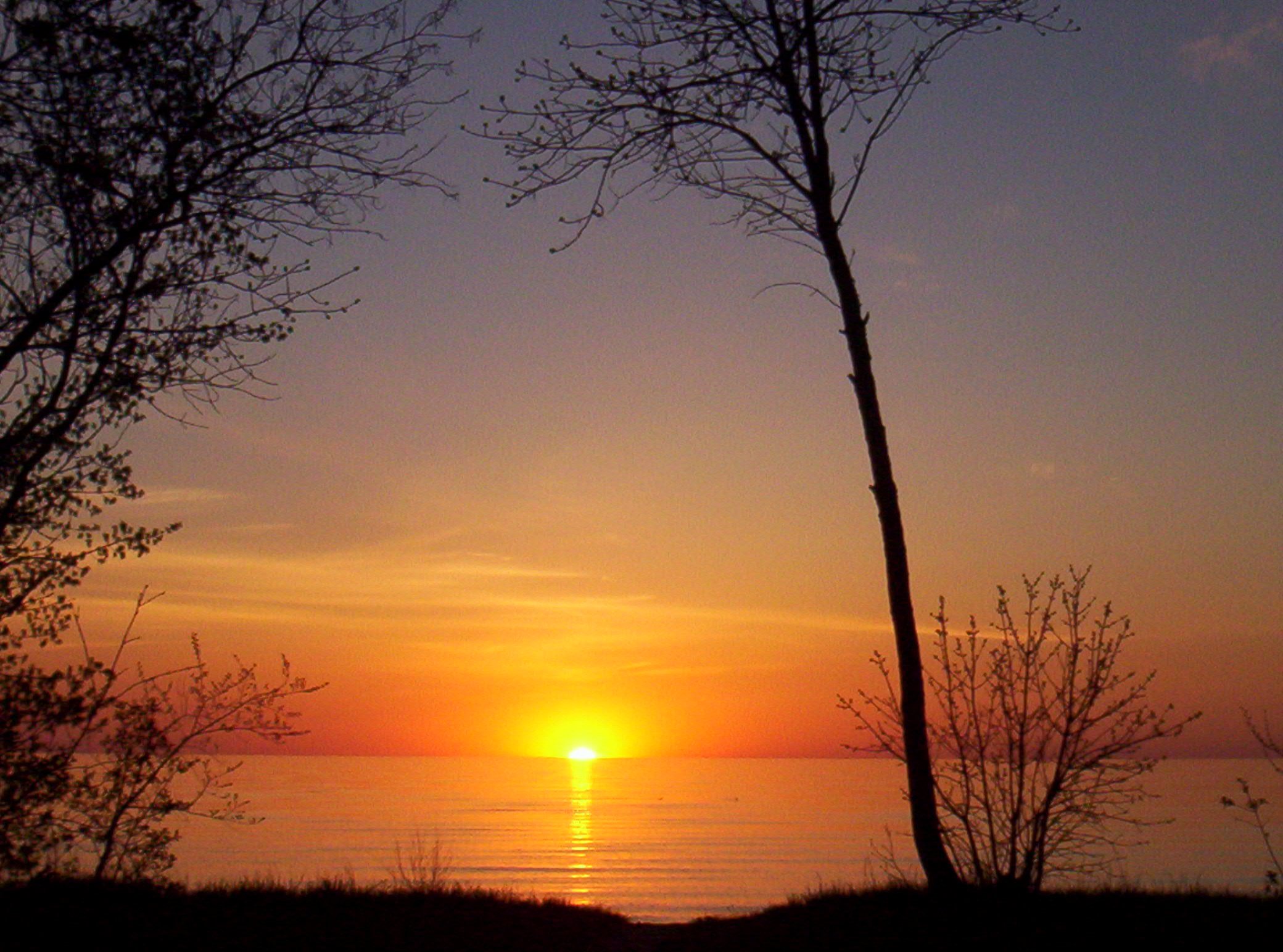 Sunset at Twin Beached